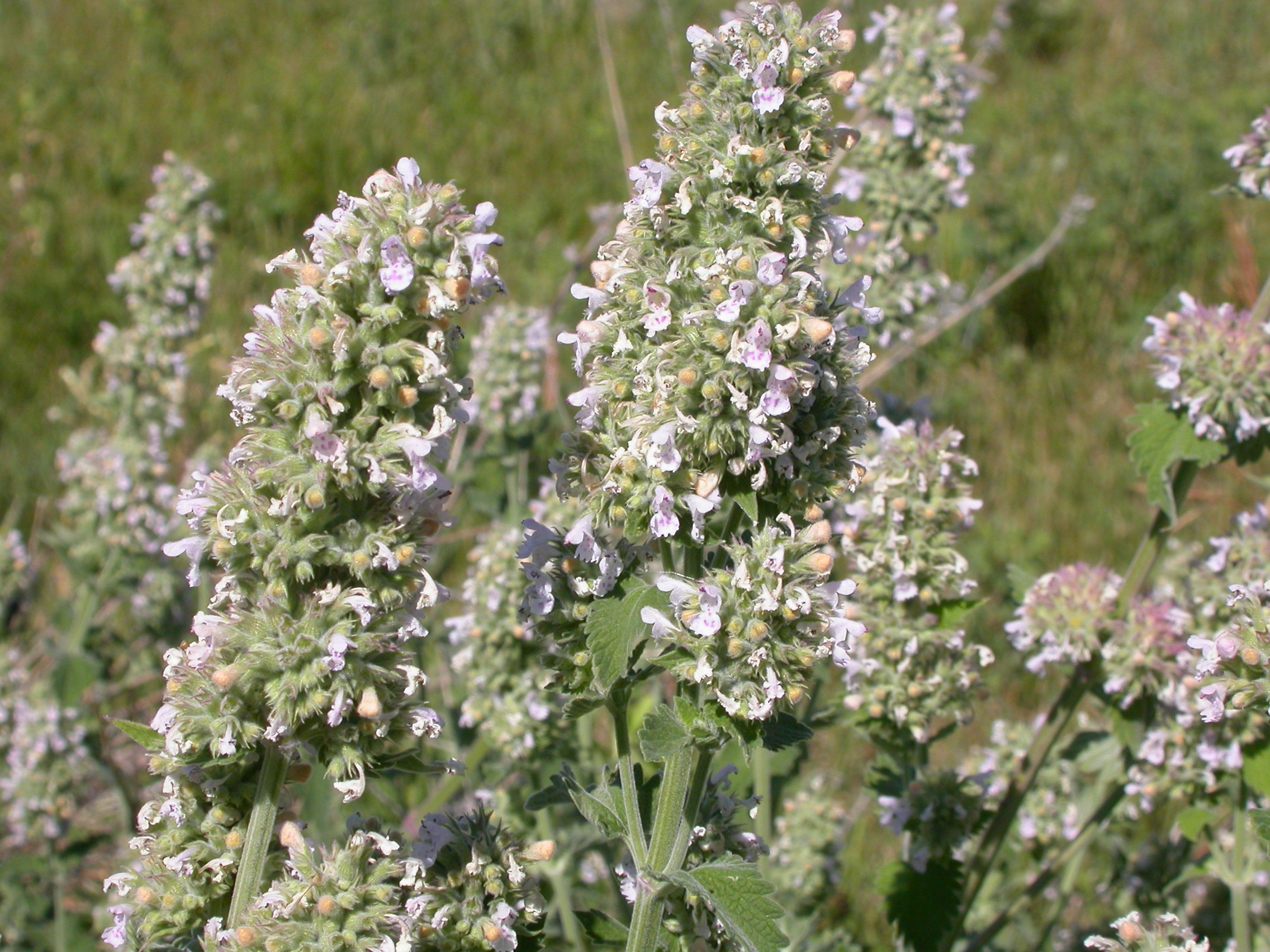 The whitish to pinkish flowers contrasting to the gray green foliage is characteristic of catnip.